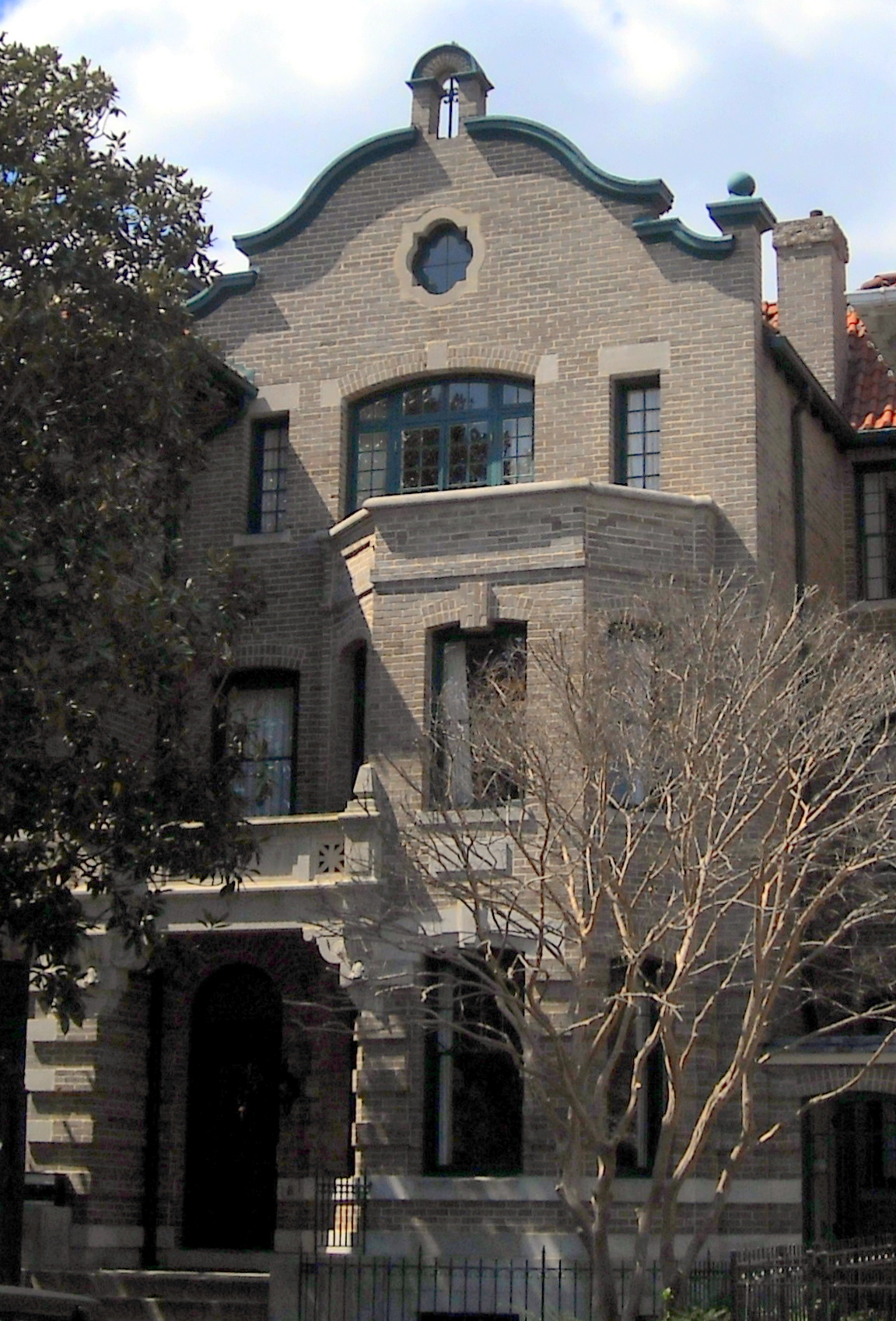 The L. Ron Hubbard House, also known as the Original Founding Church of Scientology, located at 1812 19th Street, N.W., in the Dupont Circle neighborhood of Washington, D.C. The building is designated as a contributing property to the Dupont Circle Historic District and currently operates as a historic house museum.